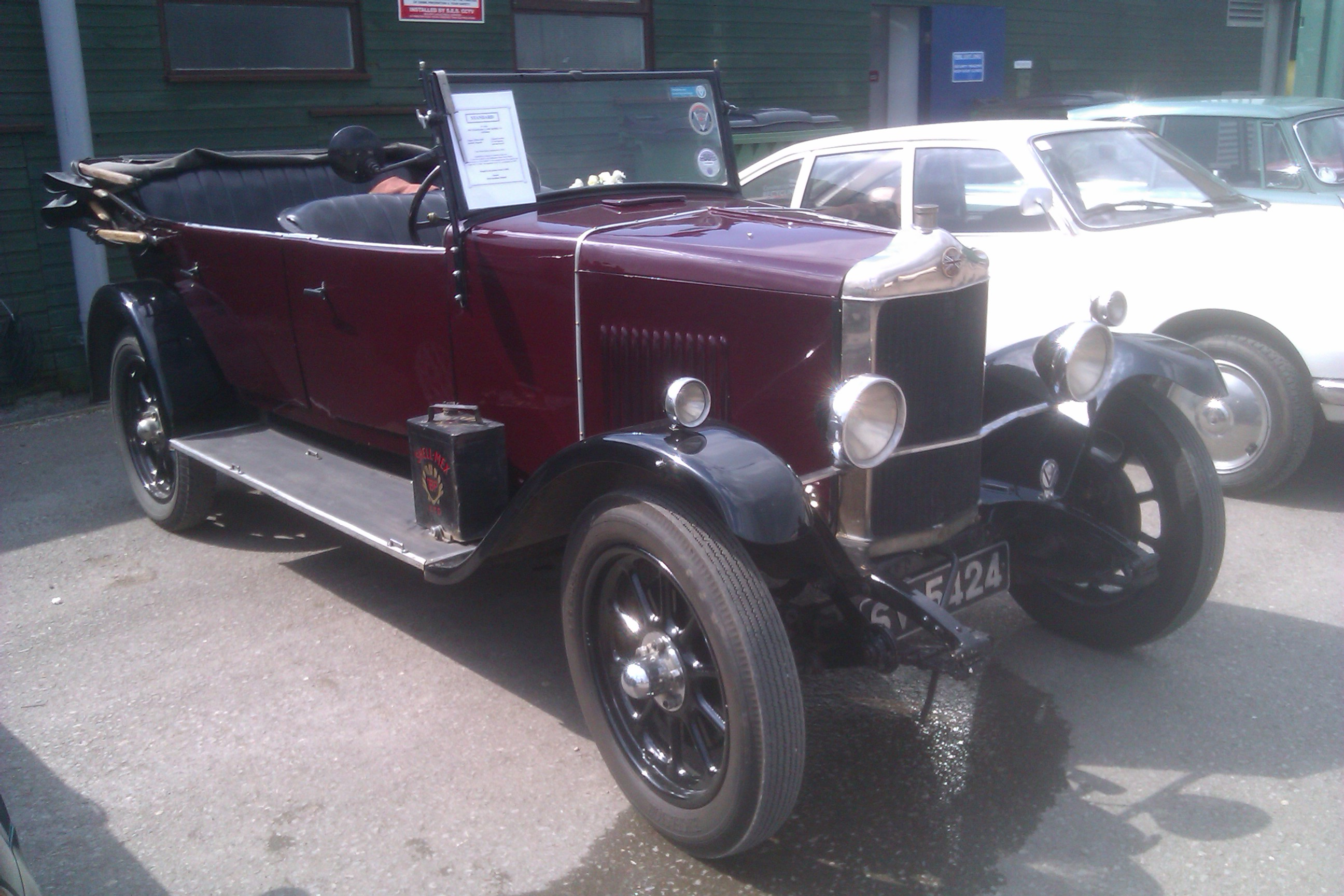 1927 Standard 13.9 HP Model V4 Tourer (DVLA) first registered Footman James Bristol Classic Car Show 20th April 2013